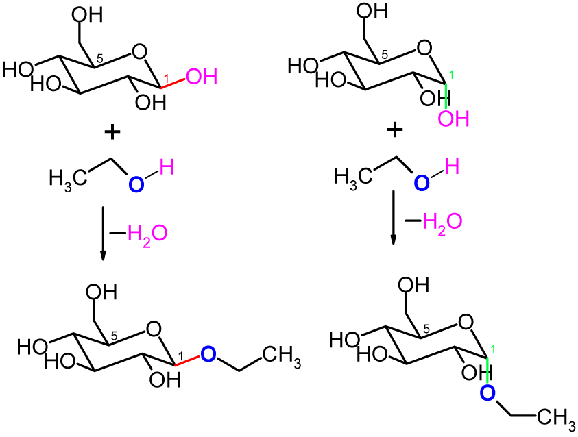 Formation of Ethyl-α-D-Glucopyranoside and Ethyl-β-D-Glucopyranoside